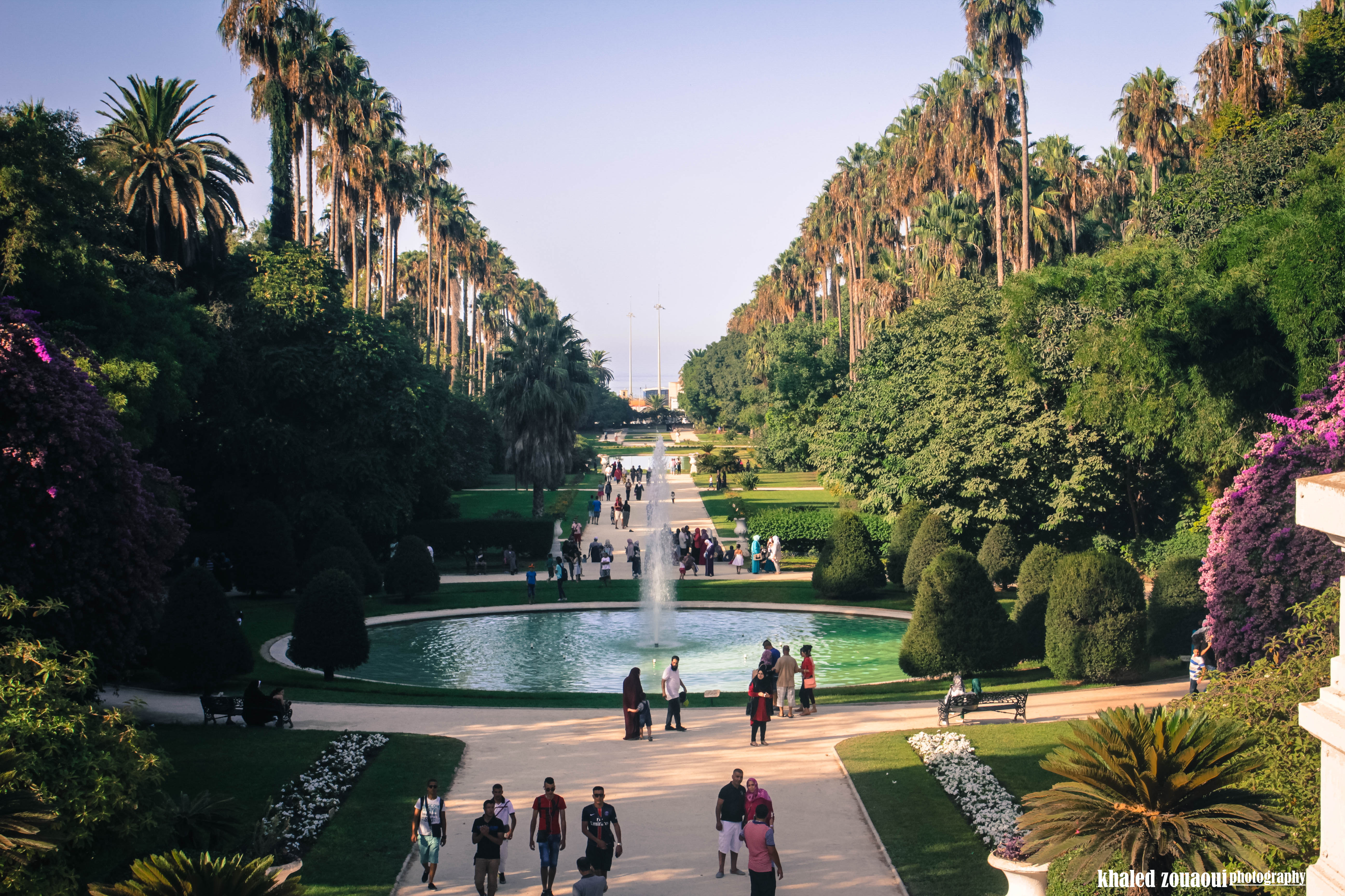 It was established in 1832 and is now still considered one of the most important botanical gardens in the world.